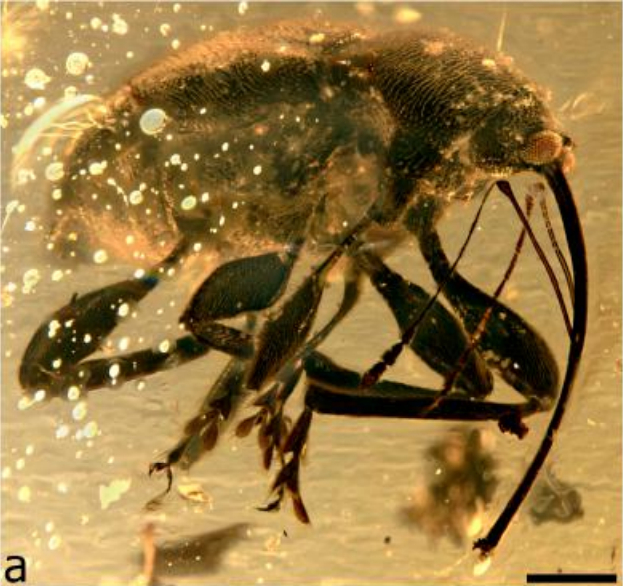 Mekorhamphus beatae, paratype. Habitus, right lateral (a); Scale bar: 0.5 mm